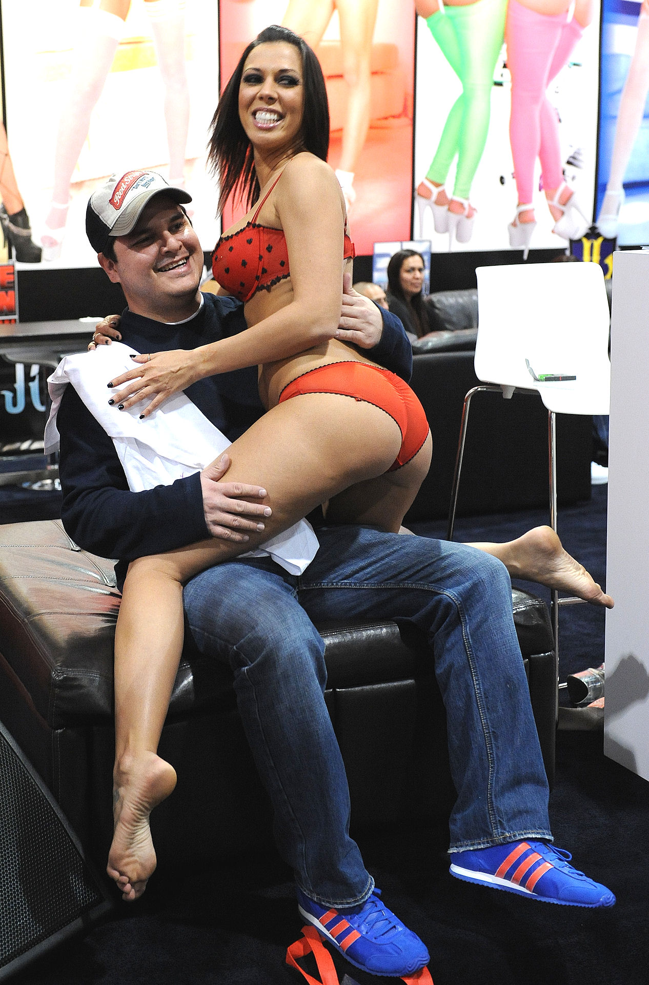 Rachel Starr at AVN Adult Entertainment Expo 2011